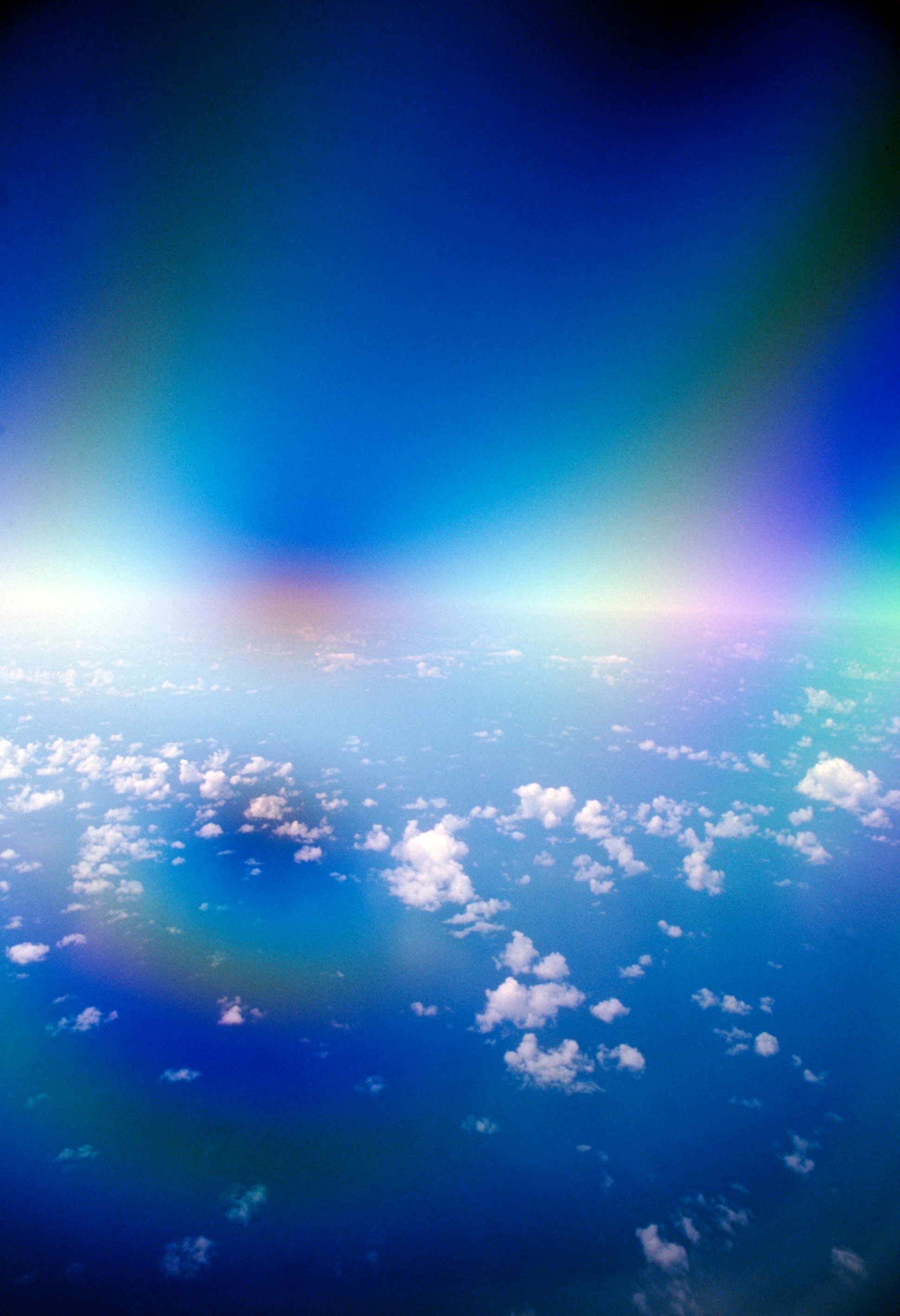 Circular Polarization through an airplane plastic window, analog film, Nikon Camera, polarizer filter, 20mm lens, 1989